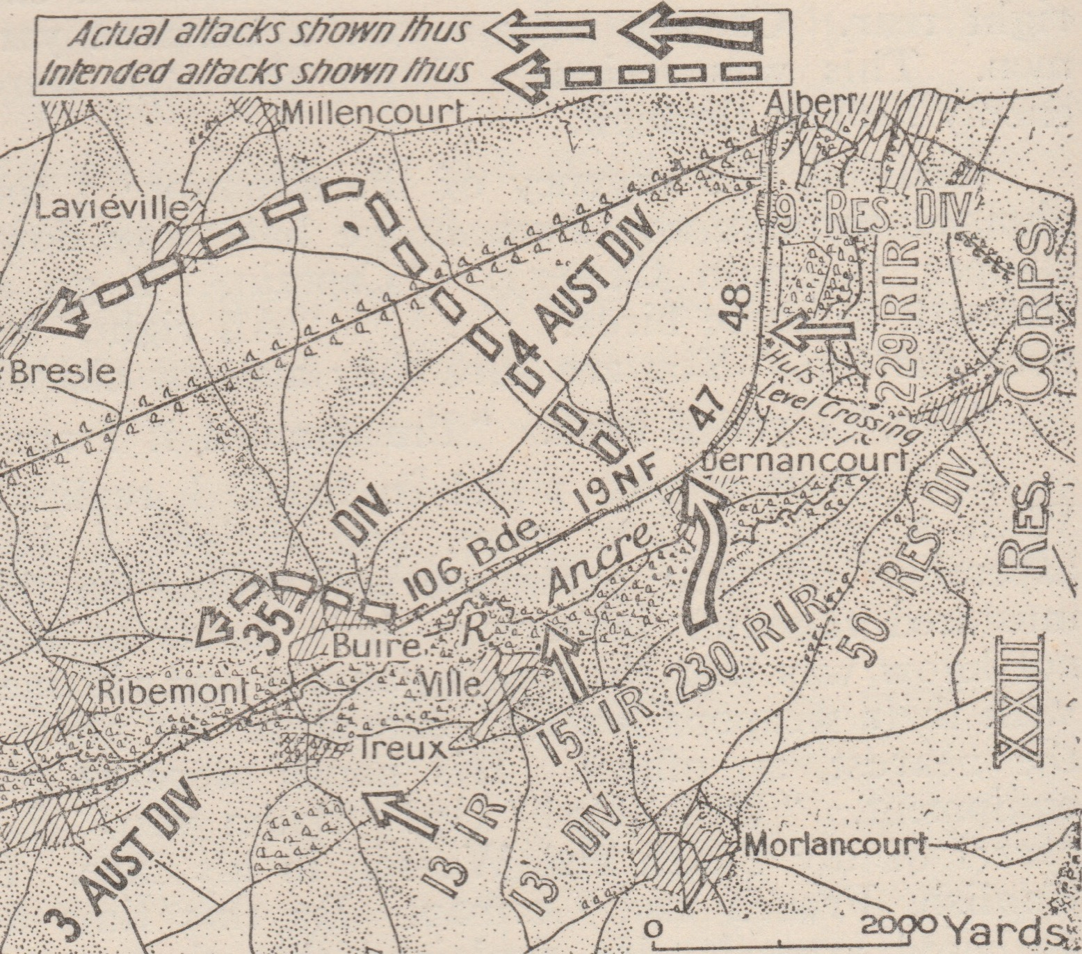 Map of the German plan of attack for the First Battle of Dernancourt 1918